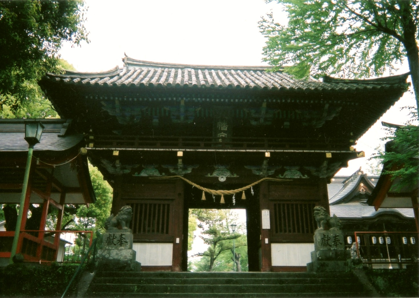 Ohara hachimangu Roumon